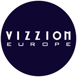 SEFIK BIRKIYE, VIZZION EUROPE, VIZZION PARTICIPATIONS, VIZZION ARCHITECTS, Sefik Birkiye, Real Estate, Architecture